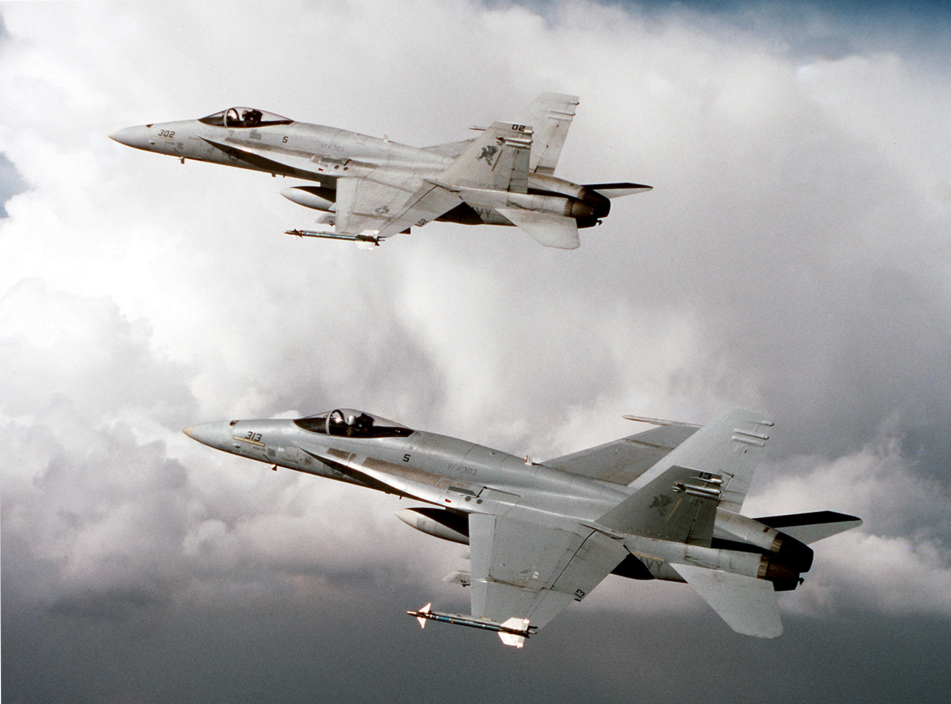 Two U.S. Navy Reserve McDonnell Douglas F/A-18A Hornet aircraft of Strike Fighter Squadron 303 (VFA-303) over Southern California (USA), in 1989.